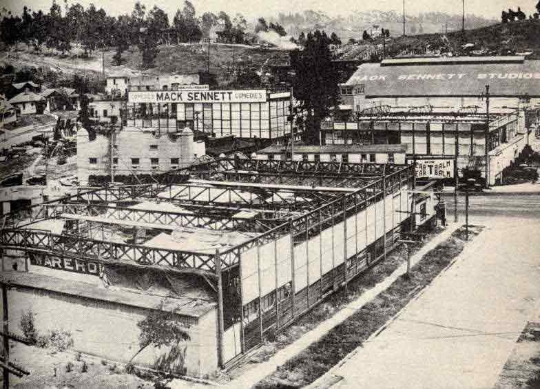 Keystone Studios (a.k.a. Sennett Studios), Edendale, California. Circa 1917